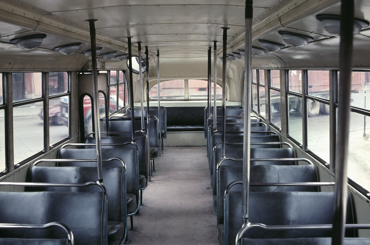 Interior view of 1947-built Pullman-Standard trolleybus No. 832, in Valparaíso, Chile, in 1996. This vehicle and several other Pullman trolleybuses are still in service in 2017. This is a photo of a national monument in Chile: 2010